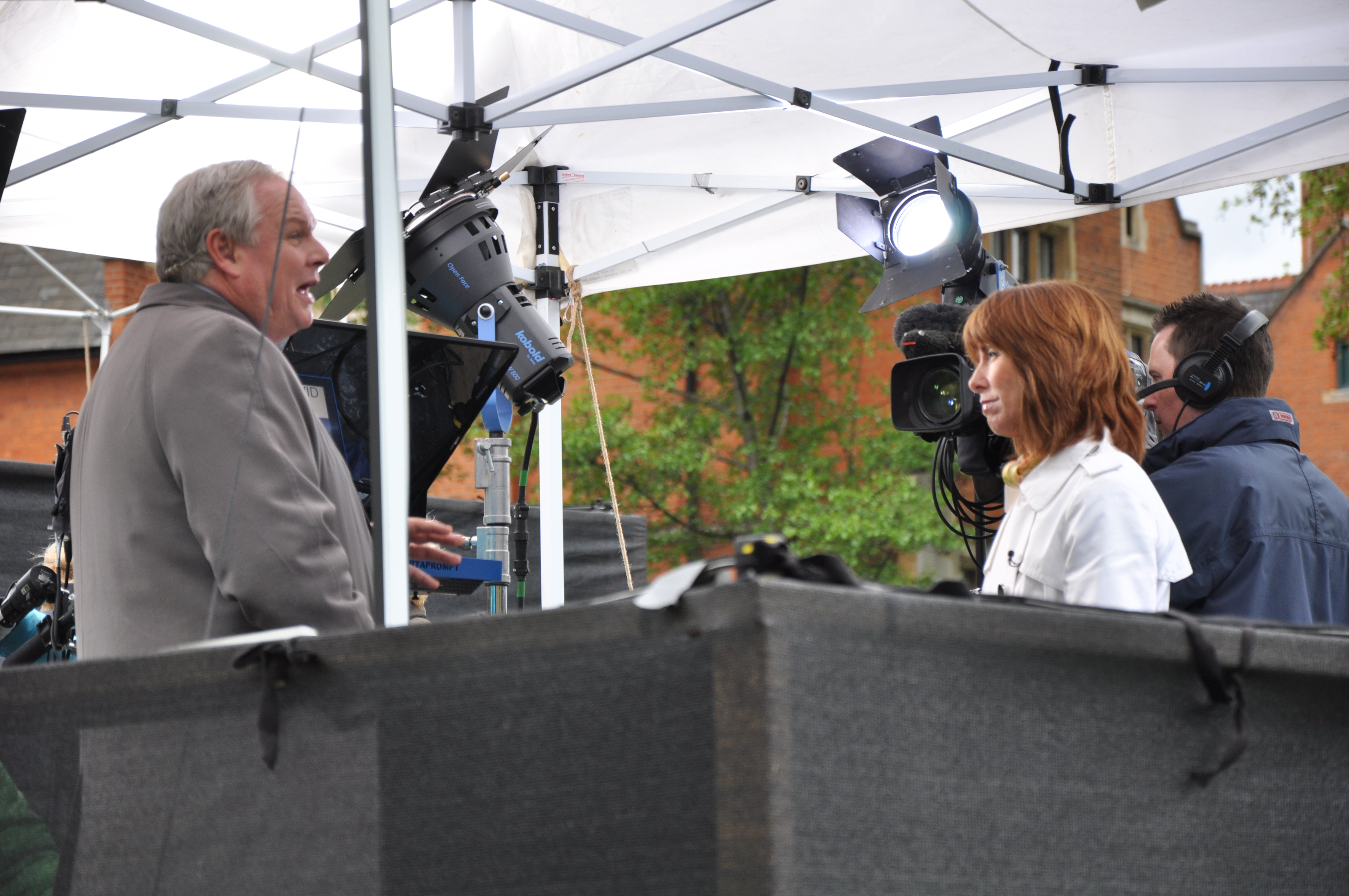 Sky News presenters Kay Burley and Adam Boulton filming during the United Kingdom 2010 general election.